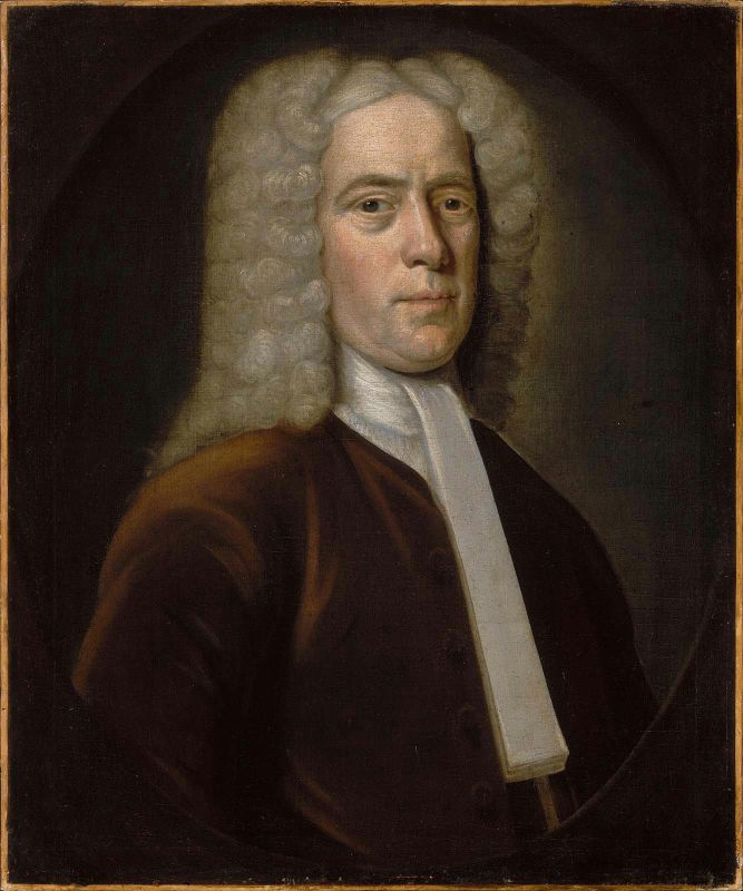 Portrait of Edmund Quincy. By John Smibert.